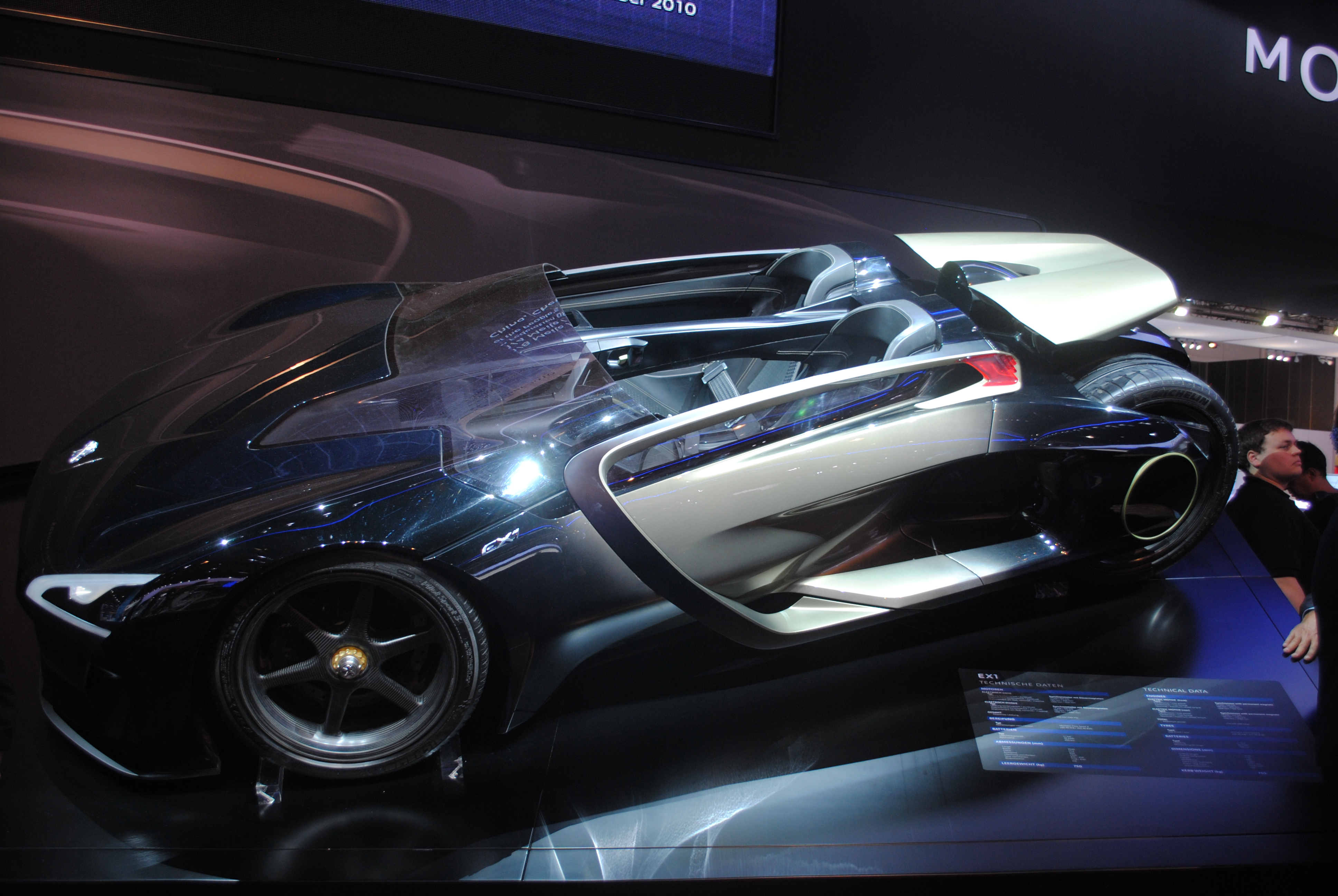 More photos and info